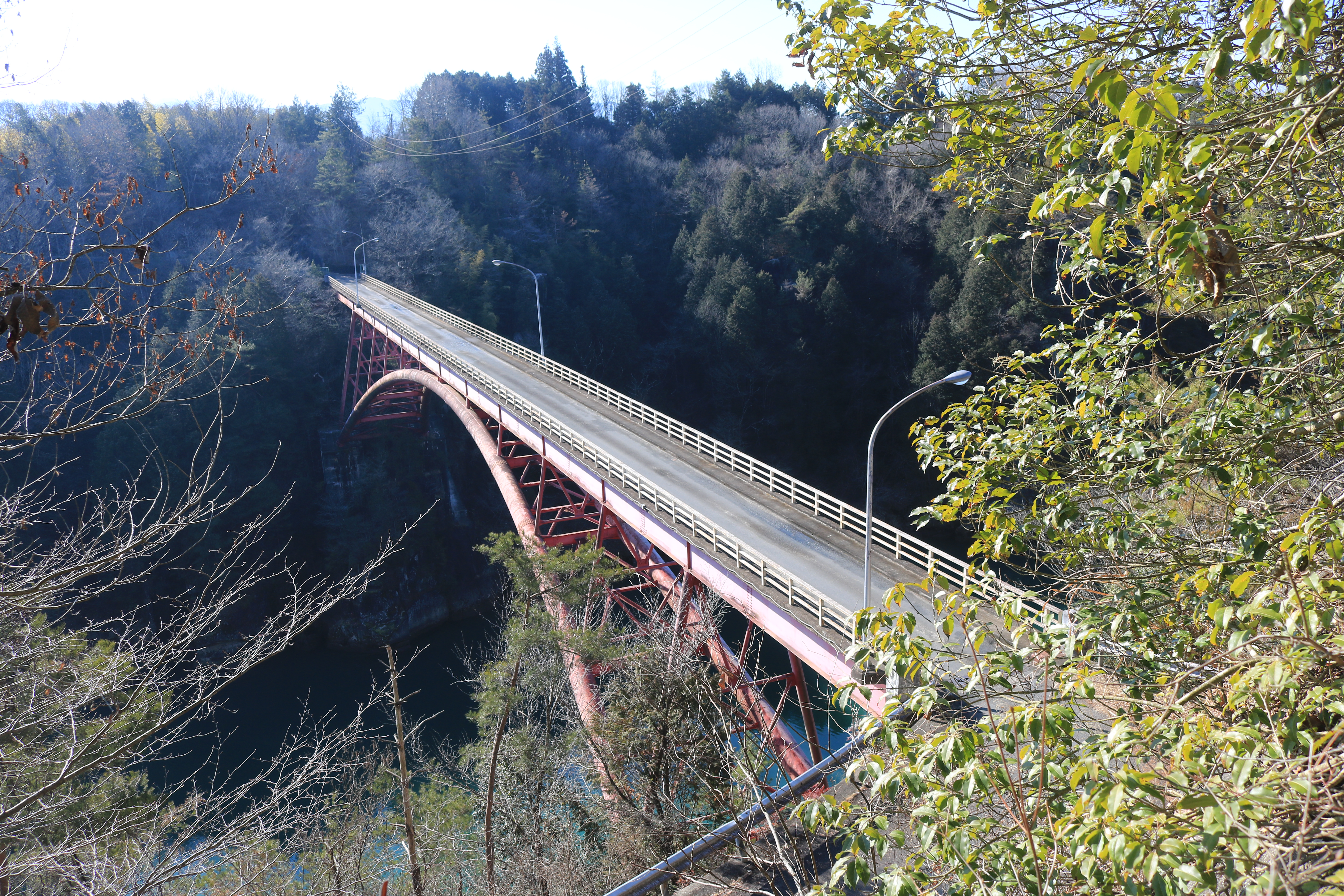 Gensai Bridge seen from north over Kiso River, in Nakatsugawa, Gifu prefecture, Japan.